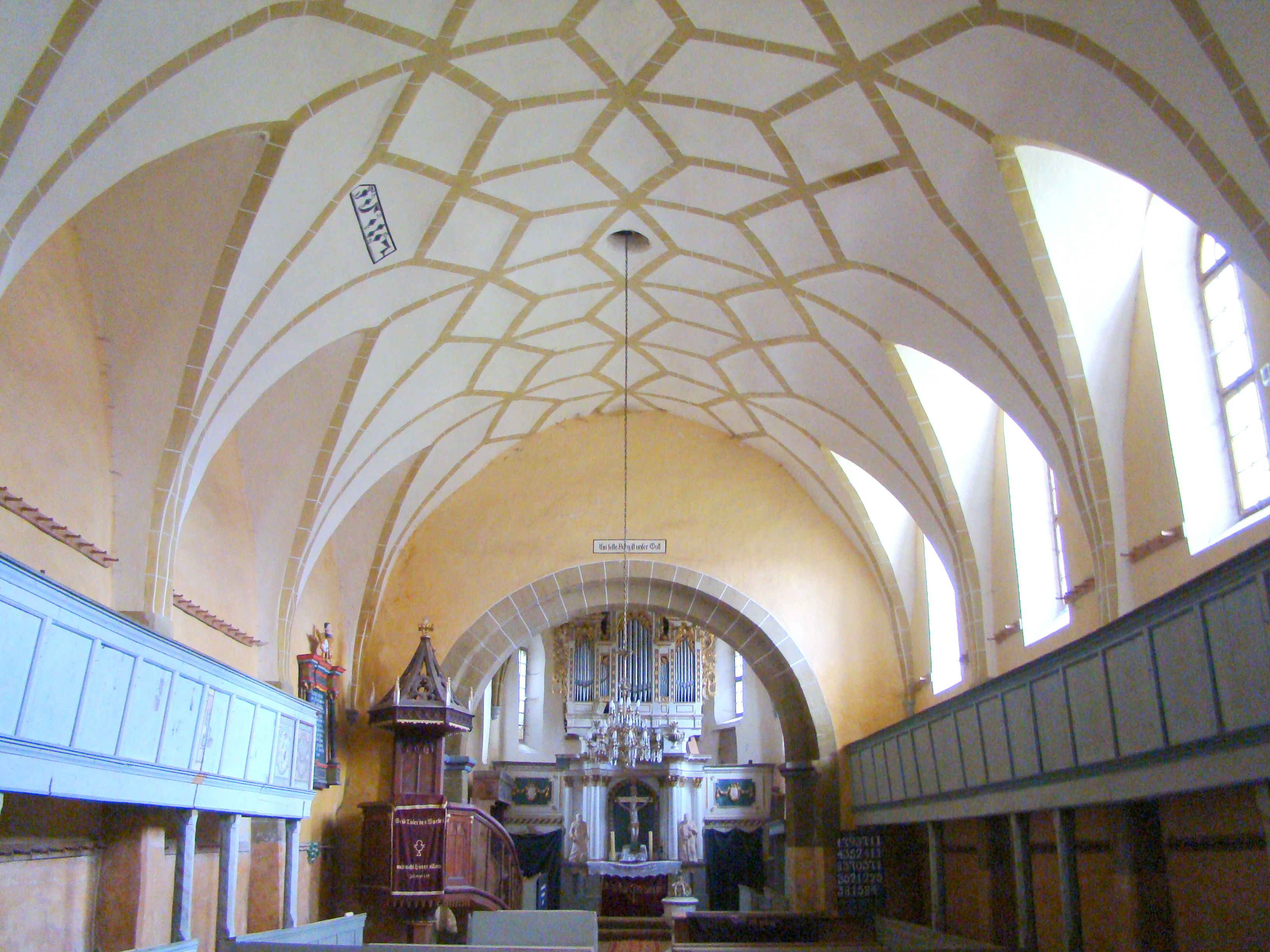 Fortified church in Dacia, Brașov County, Romania